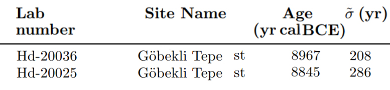 Earliest carbon 14 dates for Göbekli Tepe as of 2013